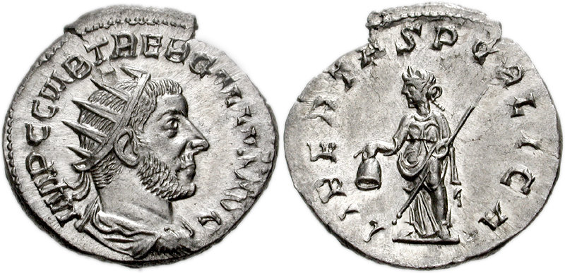 Trebonianus Gallus. AD 251-253. AR Antoninianus (21mm, 3.60 g, 12h). Mediolanum (Milan) mint. Struck AD 251-253. IMP C. C. VIB. TREB. GALLVS AUG. Radiate, draped, and cuirassed bust right; LIBERTAS PUBLICA, Libertas standing left, holding pileus and transverse scepter. RIC IV 70; RSC 68.